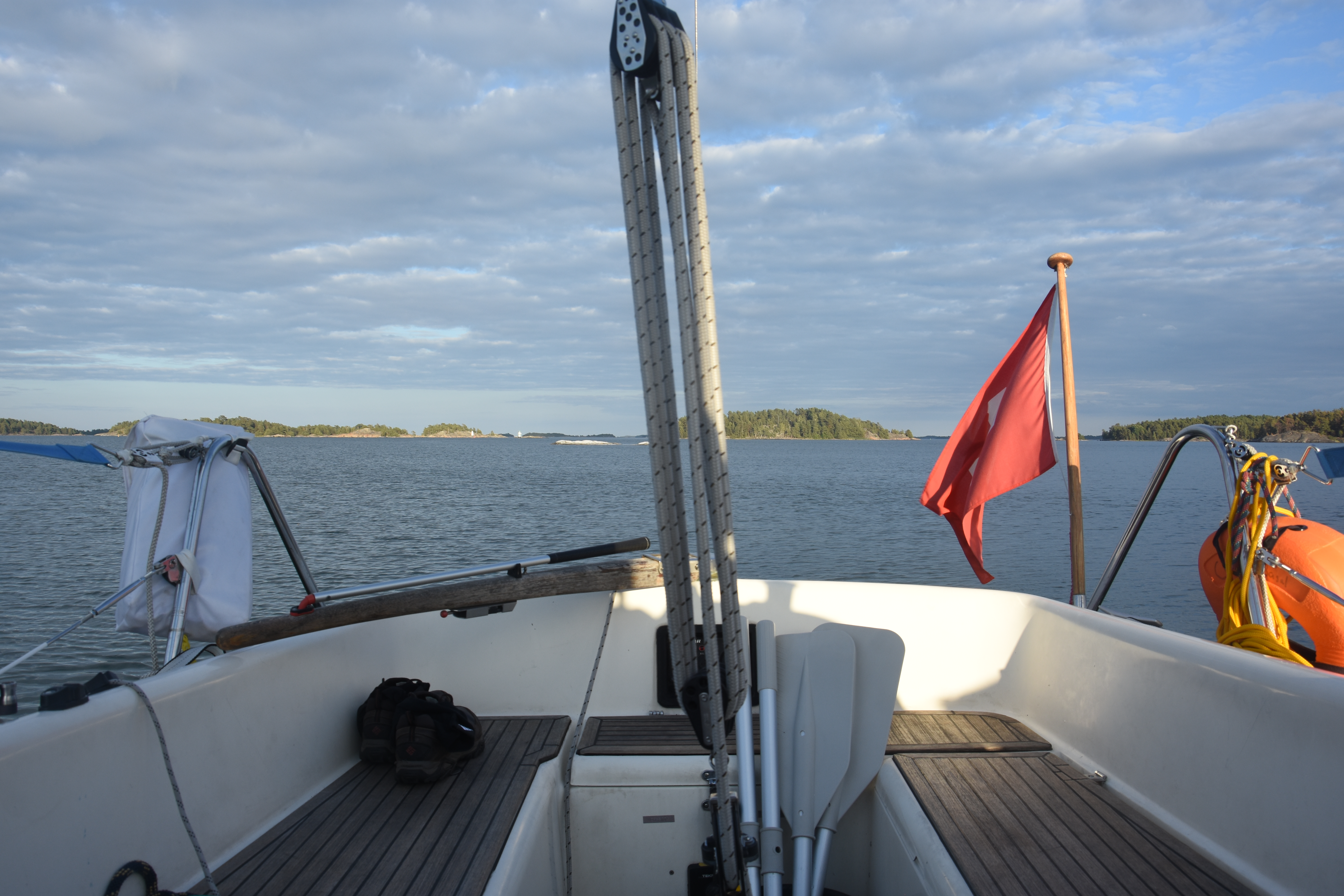 Main Sheet of a small sailboat. Image: At anchor in the swedish skärgarden, east of Norrköping